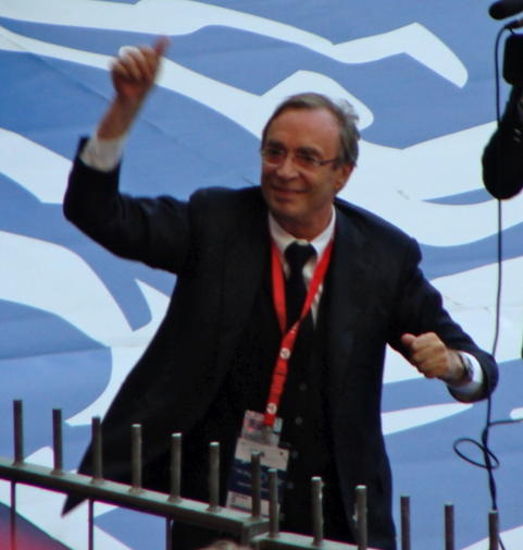 Michel Seydoux, LOSC president